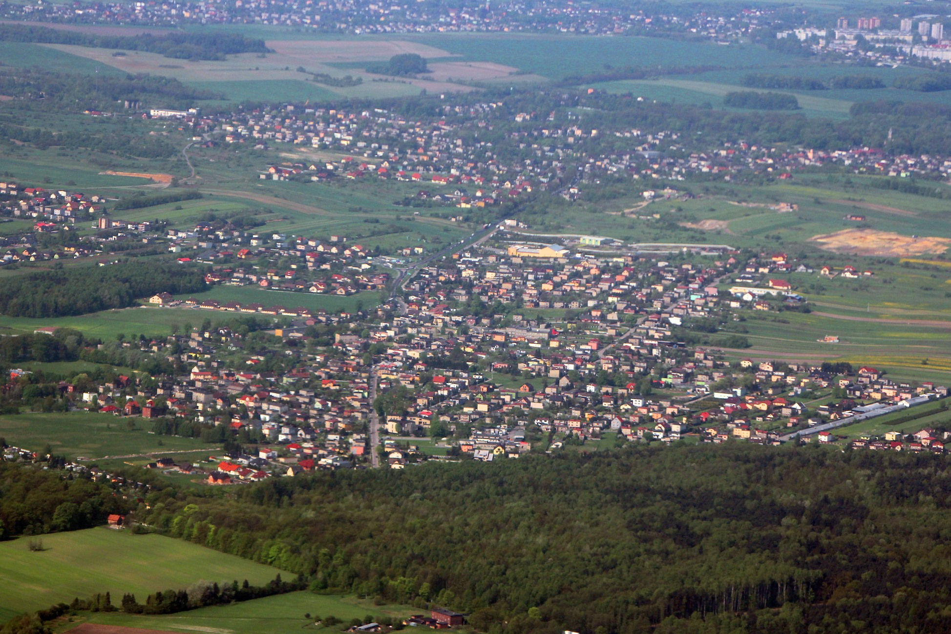 Świerklaniec, Poland.